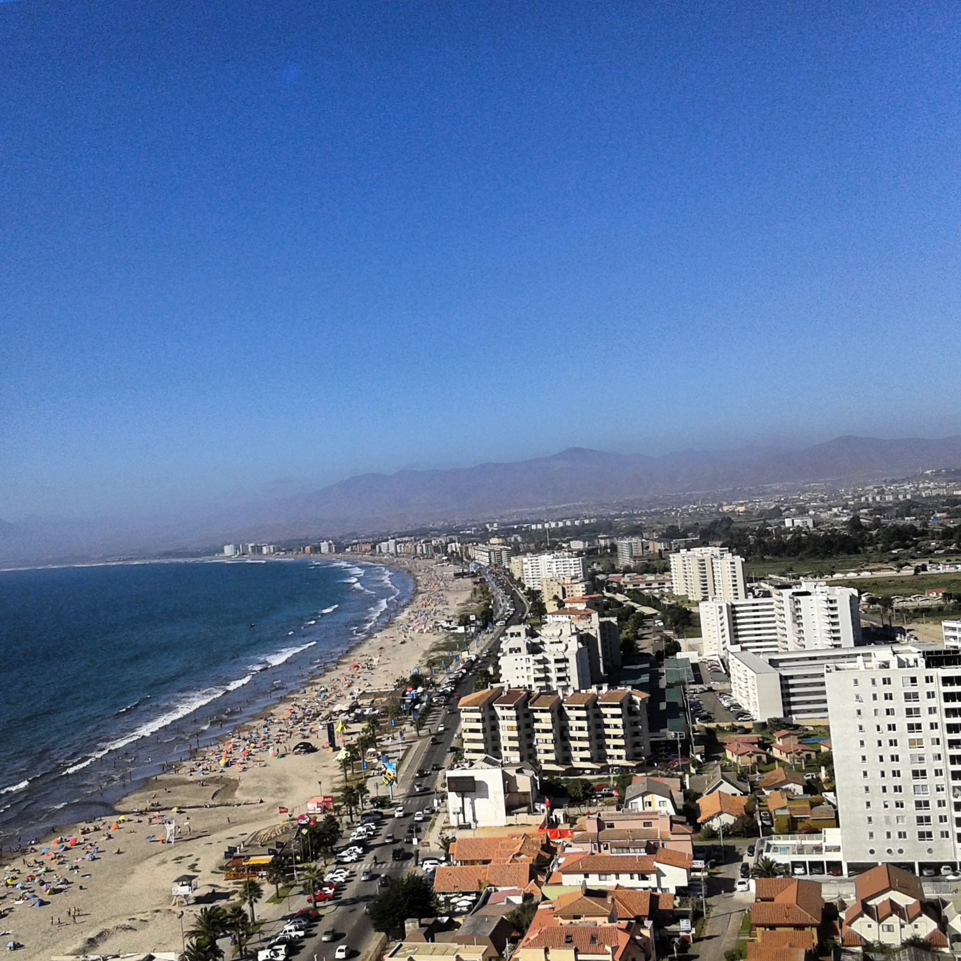 playa de la serena